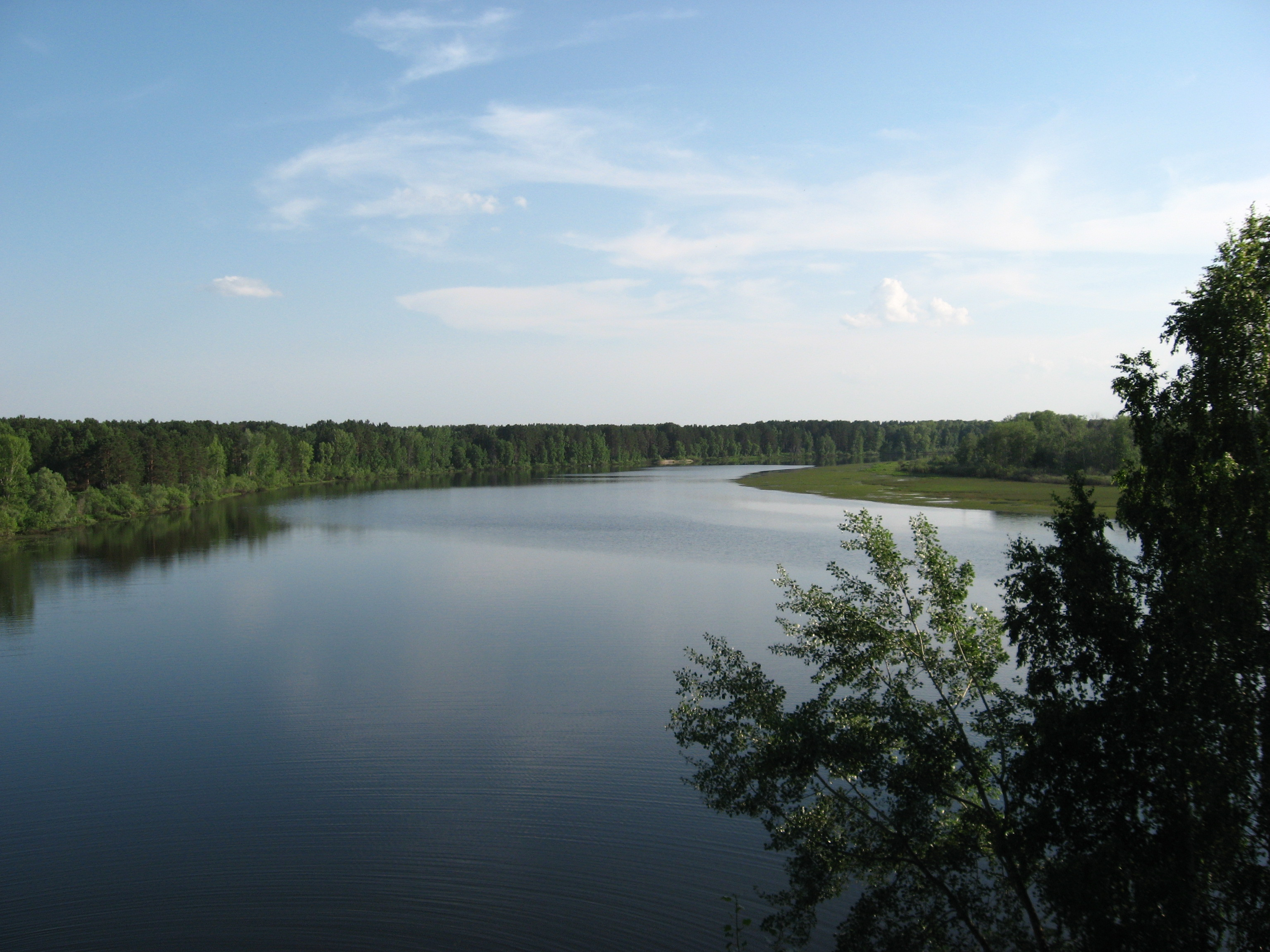 Pervomaysky District, Tomsk Oblast, Russia